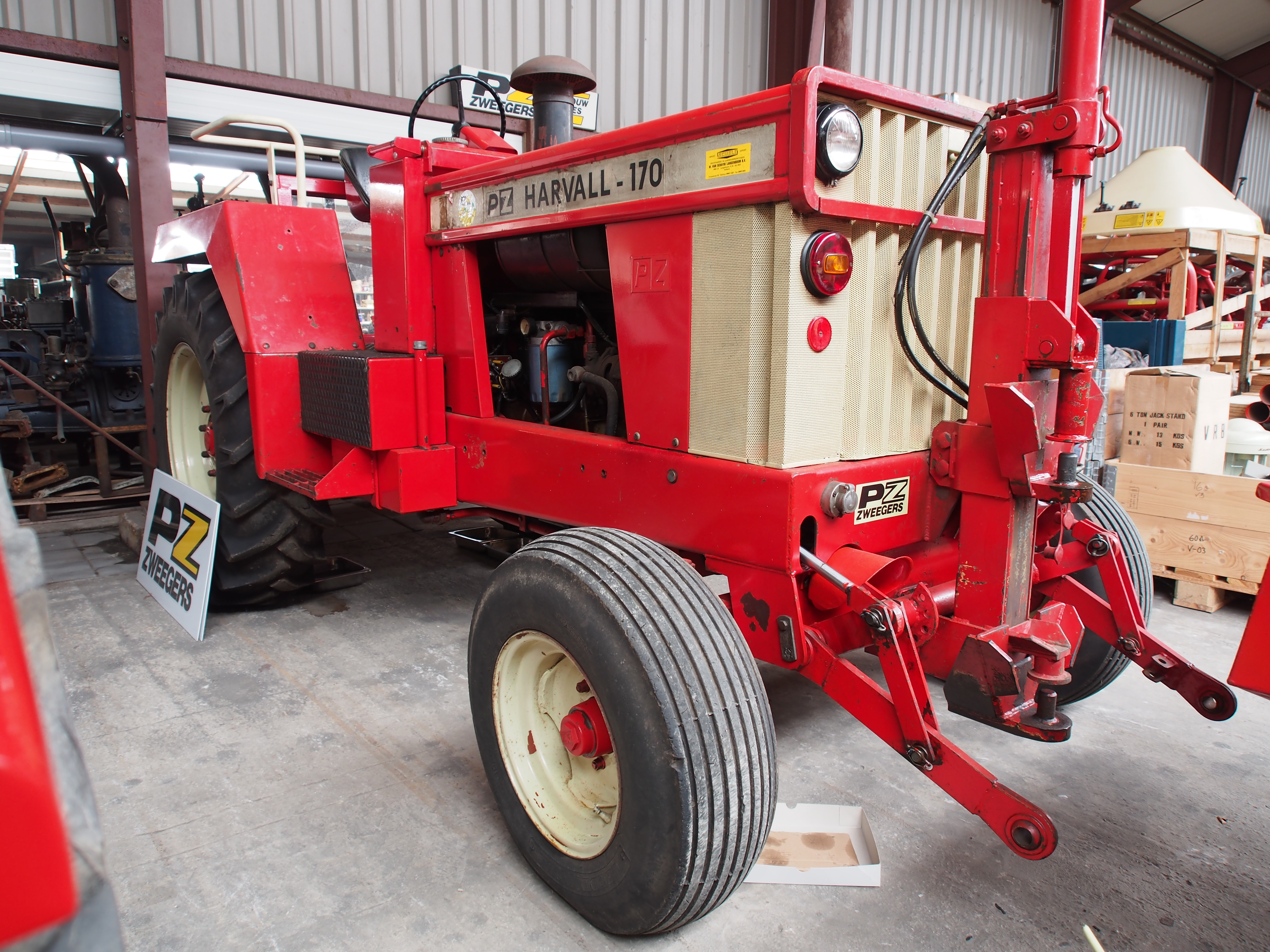 Photographed in the MUSEUM for NOSTALGIA and TECHNICS, Dorpsstraat 38, Langenboom, The Netherlands.